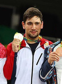 2016 Summer Olympics, Men's Freestile Wrestling 57 kg. Podium.